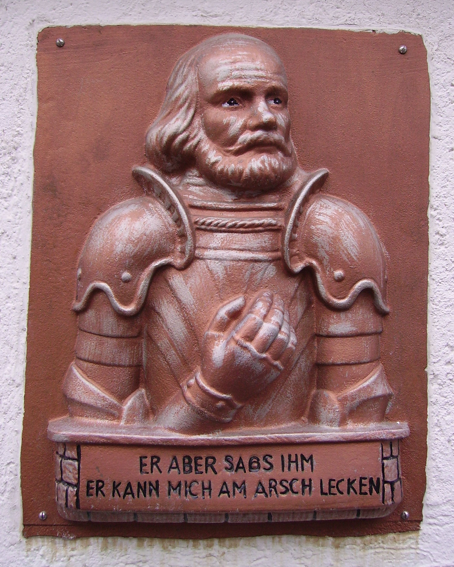 Götz von Berlichingen in Weisenheim am Sand, Germany